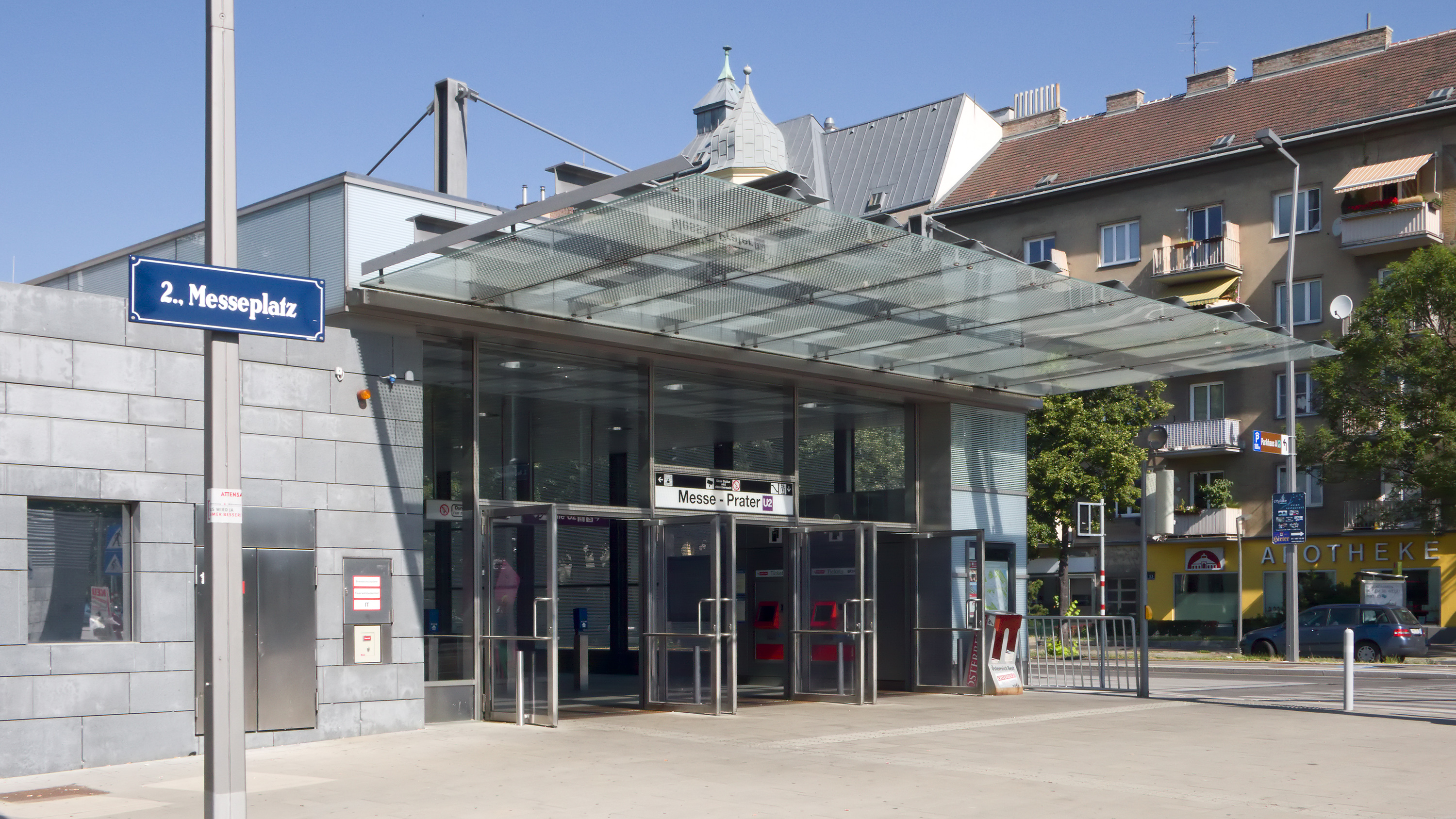 Underground station Messe-Prater (U-Bahn-Station) in Wien Leopoldstadt